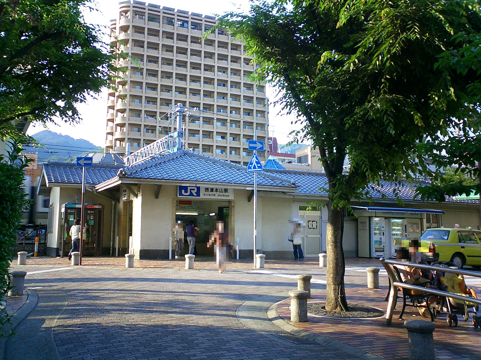 West Japan Railway Tōkaidō Main Line（JR Kōbe Line） Settsu-Motoyama Station Building South Gate